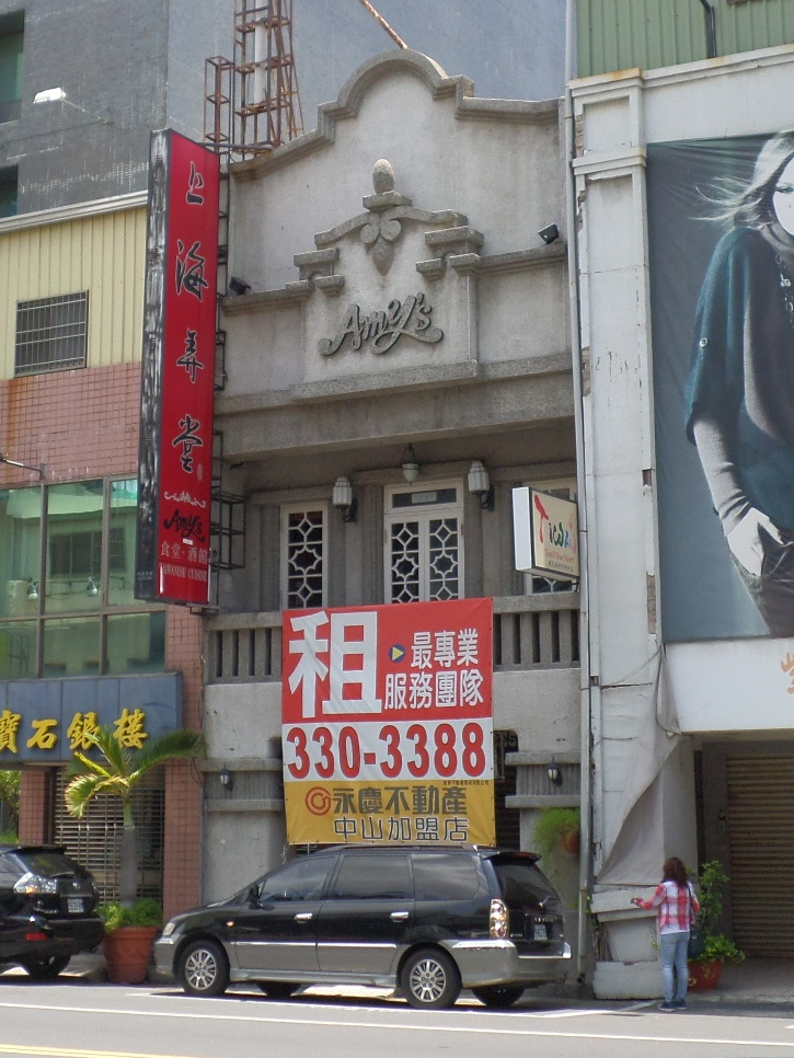 Kaohsiung Mosque First Building, No 117, Wufu 4th Road, Yancheng District, Kaohsiung City, Taiwan